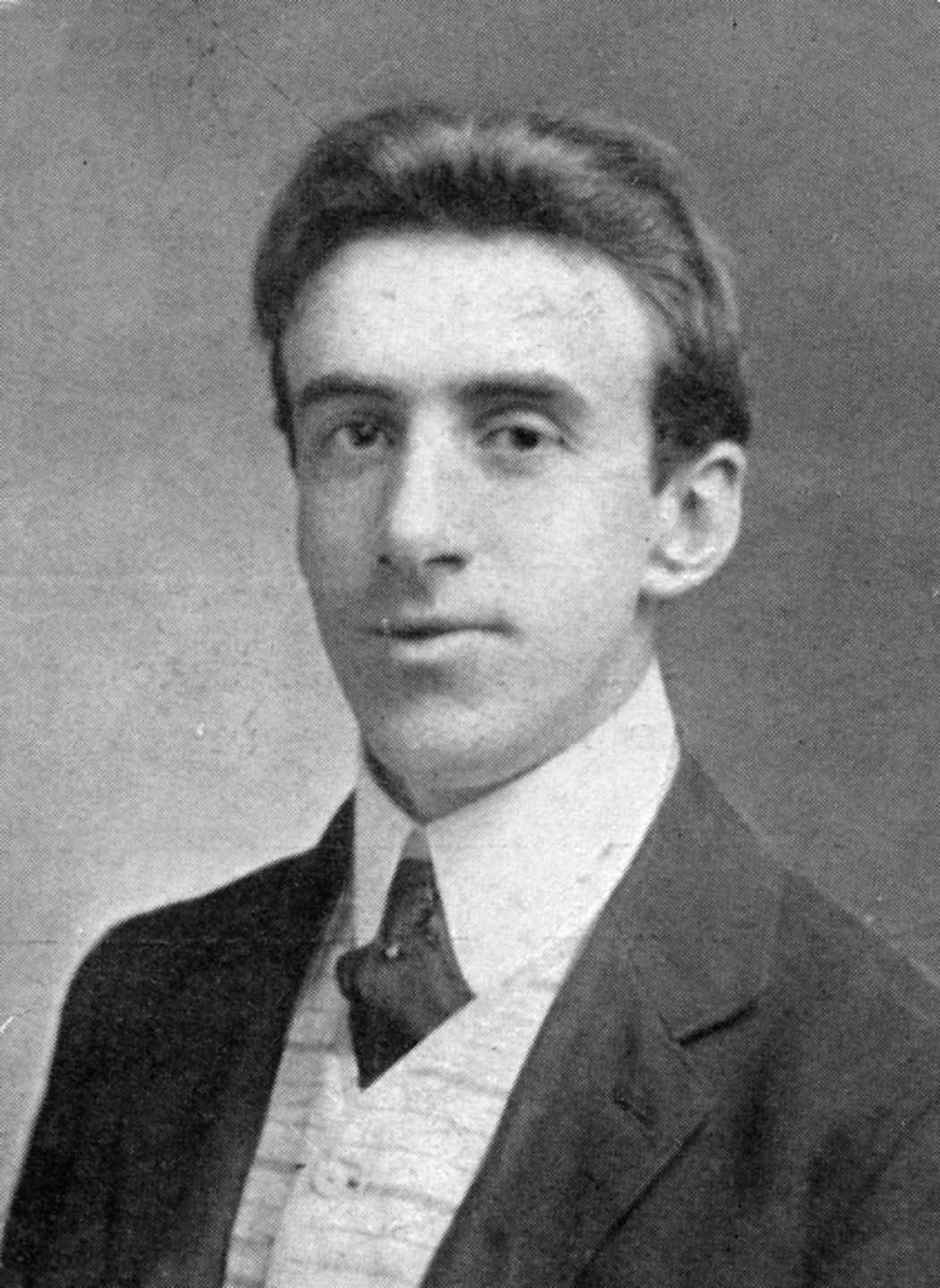 Wallace Henry Hartley, Band Leader on the RMS Titanic.